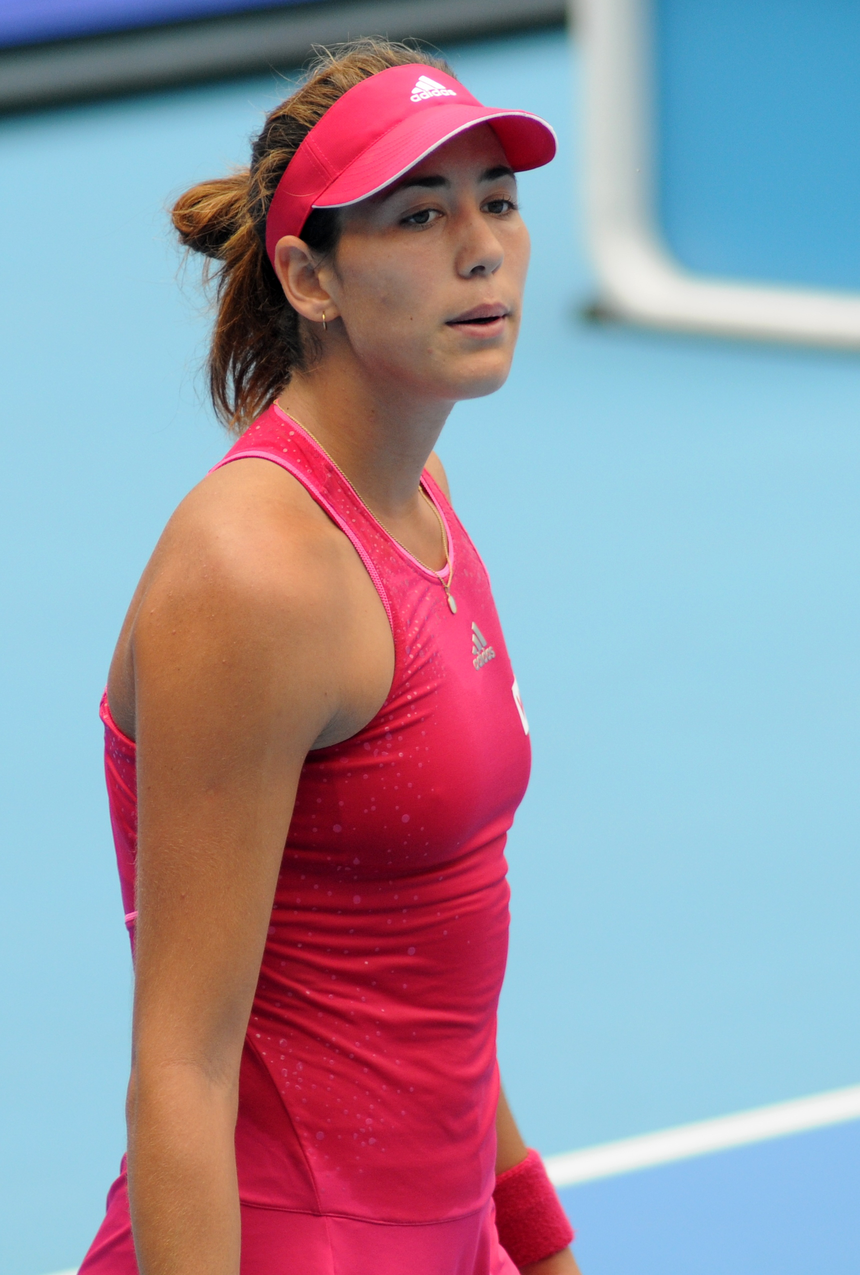 Garbiñe Muguruza at the 2014 China Open